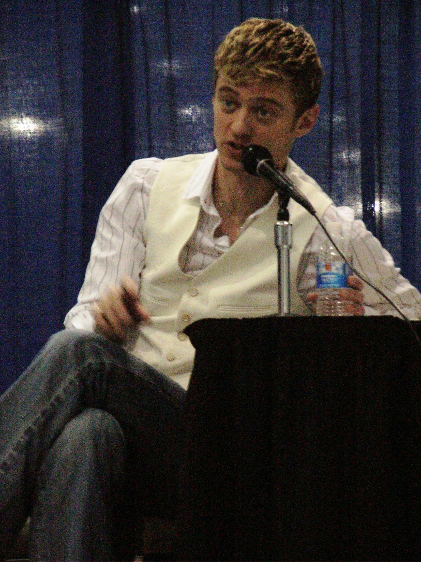 Crispin Freeman at Super-Con 2009 in San Jose, California.